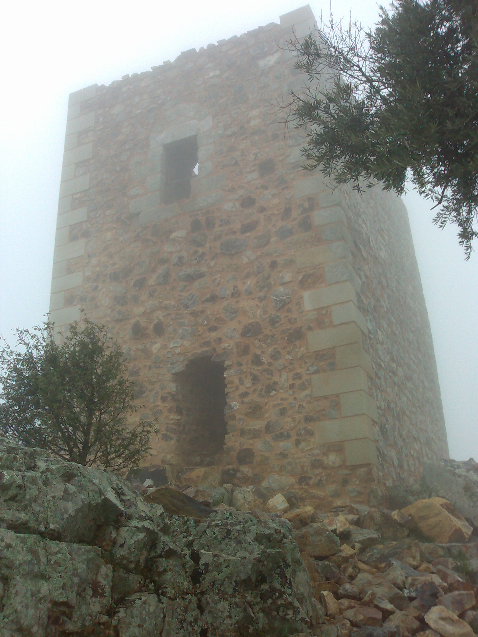 Ródão castle, Vila Velha de Ródão, Portugal.